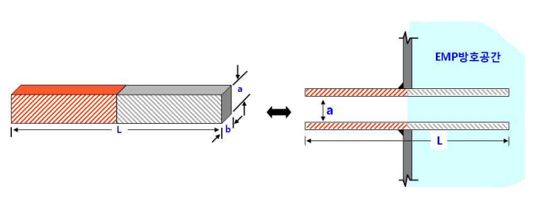 termpapaper8